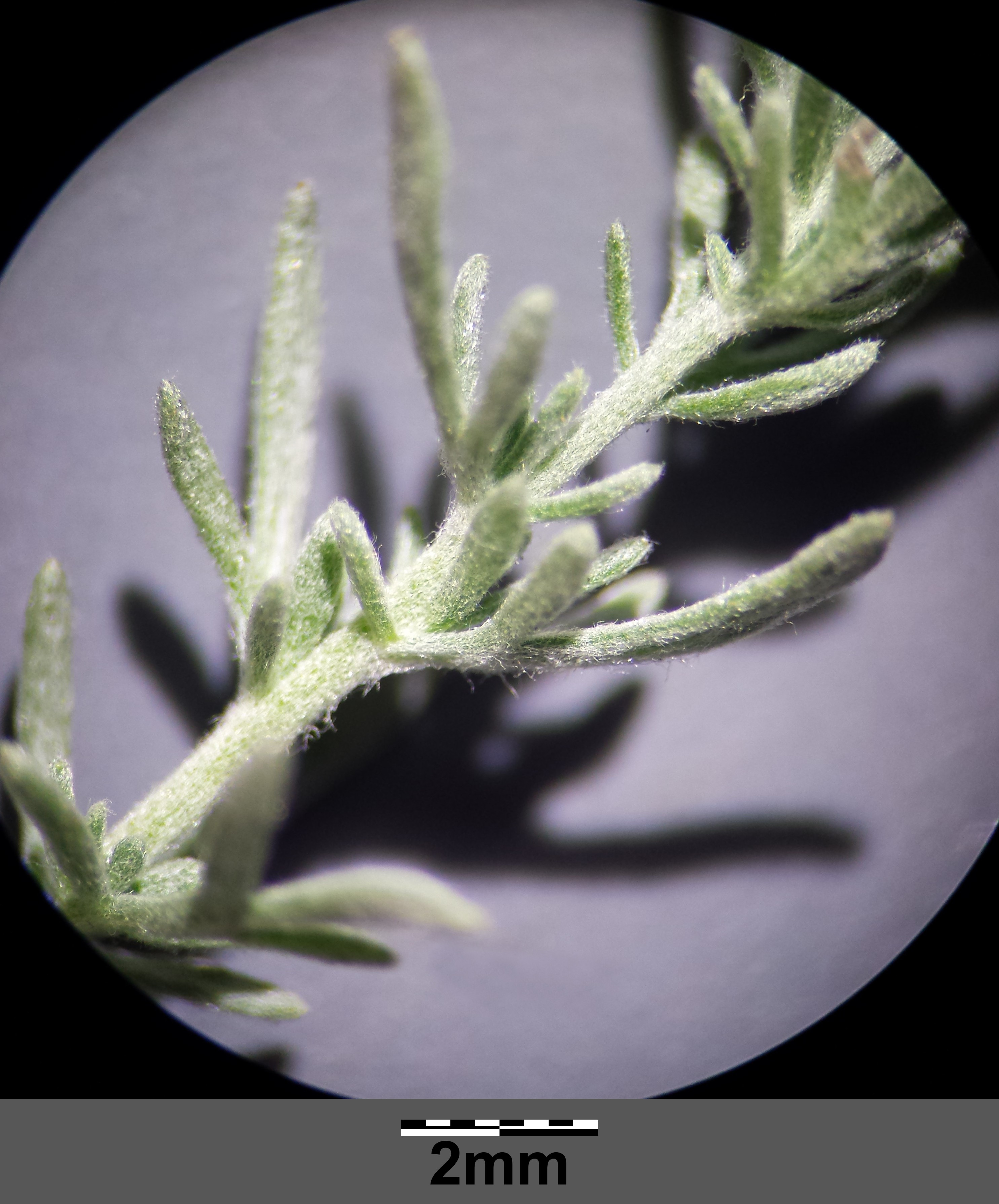 Stipe with leaves Taxonym: Artemisia repens (ss Fischer et al. EfÖLS 2008 ISBN 978-3-85474-187-9) Location: abandoned marshalling-yard Breitenlee, Vienna-Donaustadt - ca. 160 m a.s.l. Habitat: ballast/dry grassland